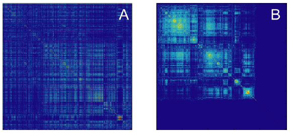 A matrix representation of products traded in the global economy in the year 2000. A. The Product Space matrix sorted by SITC4 classification. B. The Product Space hierarchically sorted reveals modularity and that 775 products are actively traded.